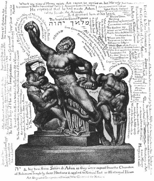 William Blake's Laocoon print